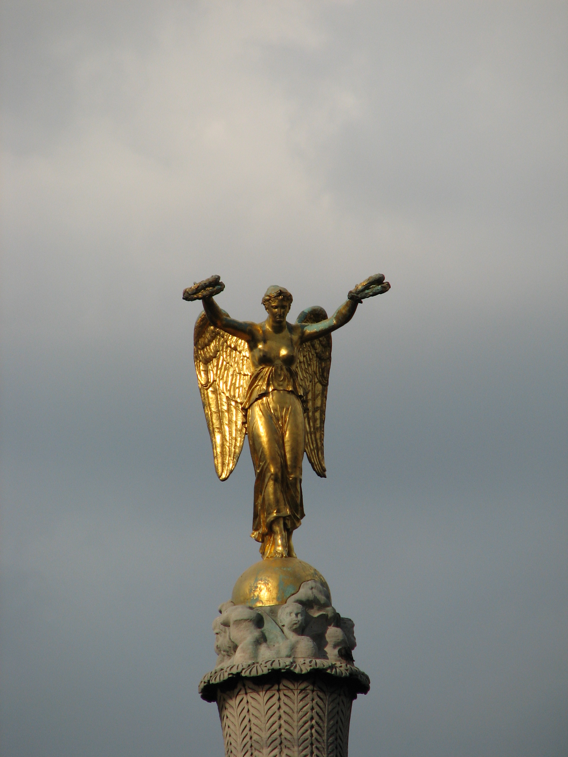 The statue on top of the column of Place du Châtelet (Paris).